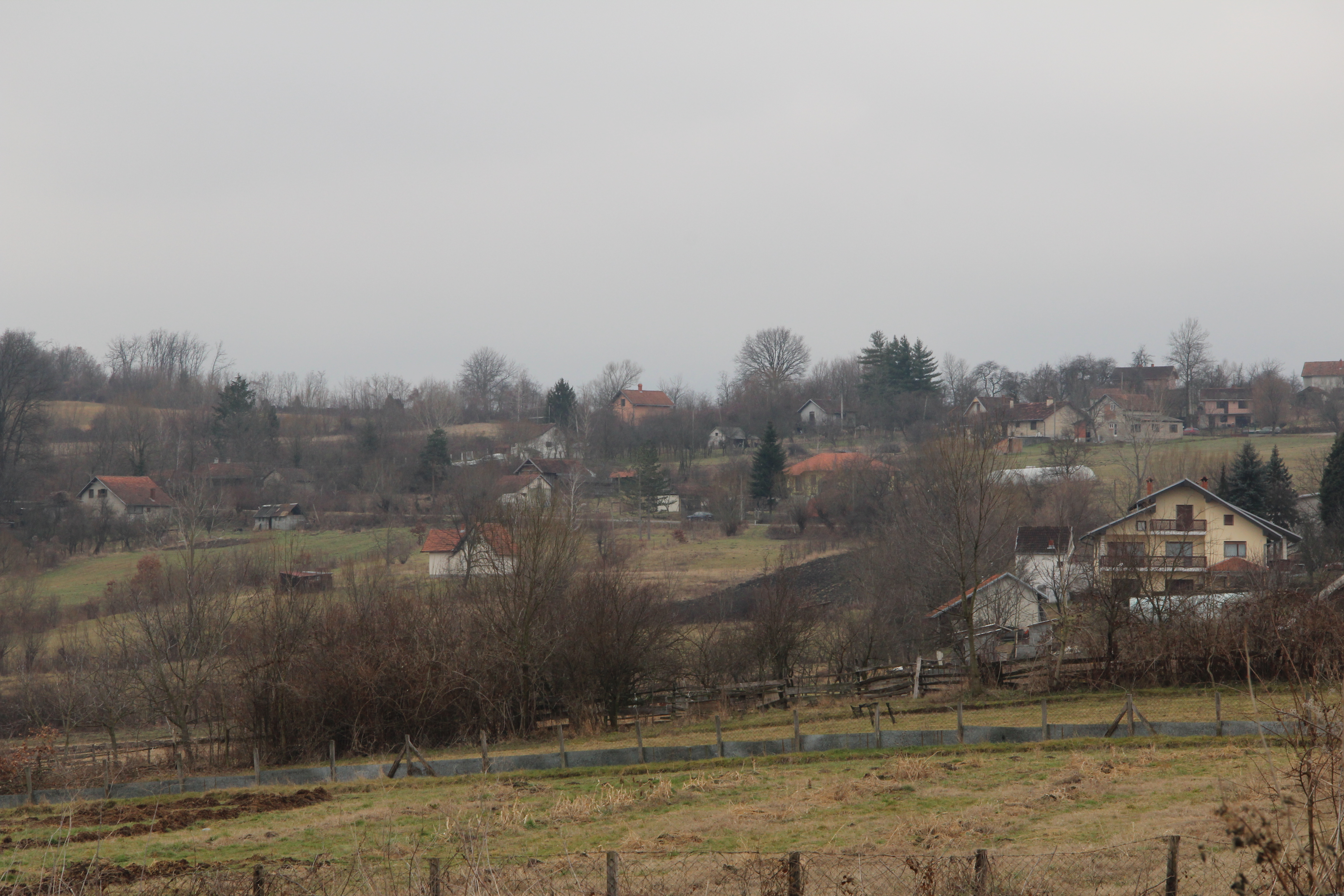 Klinci Village - Municipality of Valjevo - Western Serbia - Panorama 8 - View to the east